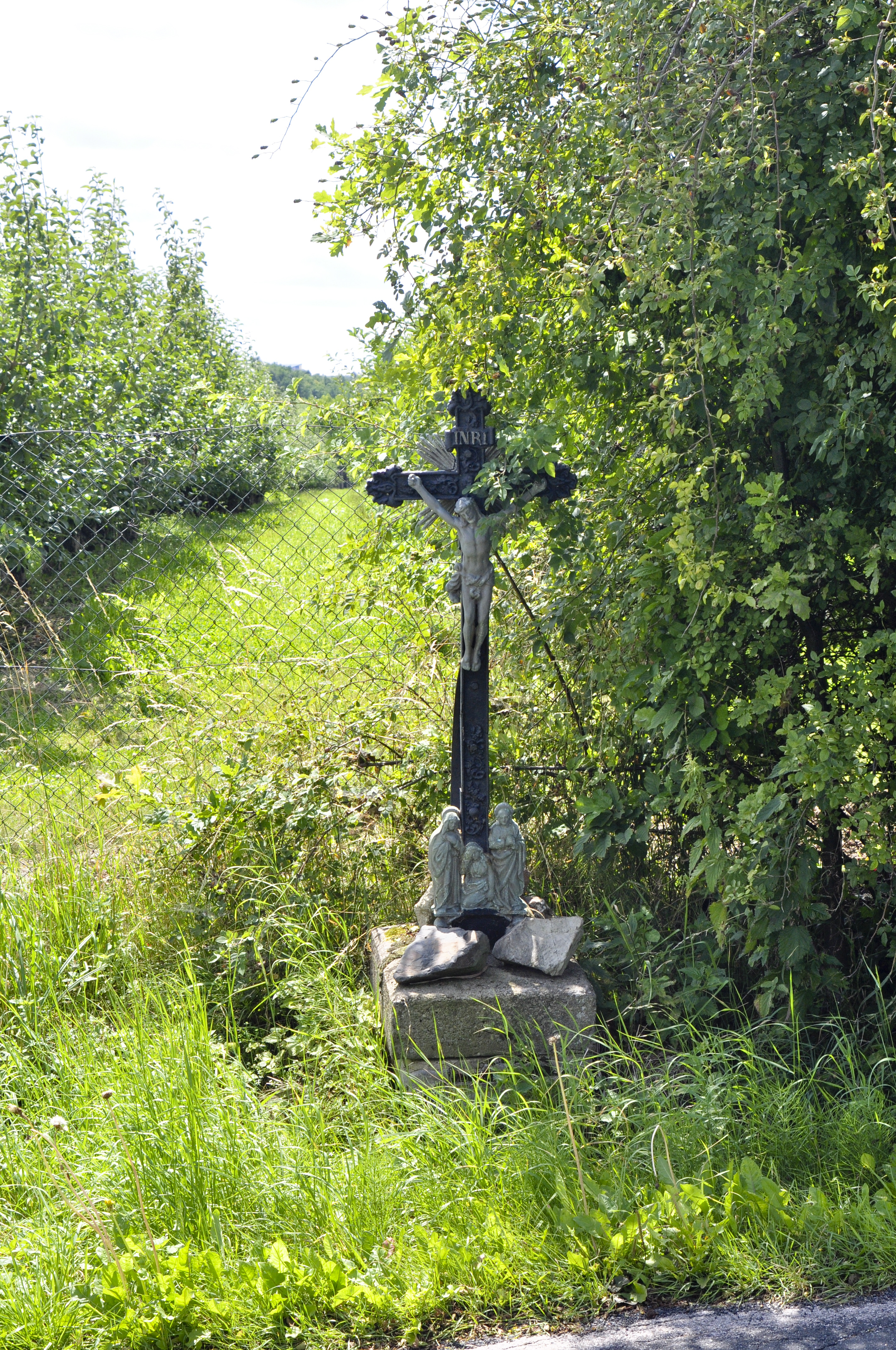 Otice, cross at the road